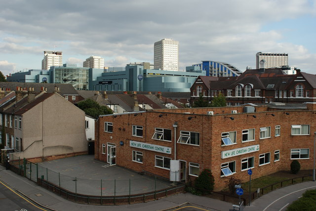 View Towards Central Croydon Taken from Pitlake Bridge, which carries Roman Way; the road which by-passes Central Croydon. Office blocks from the mid/late 1960's are dotted along the skyline.